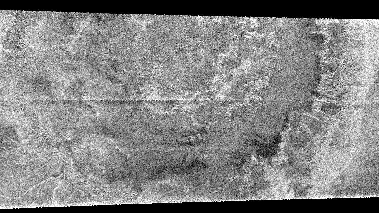 Menrva, the biggest known crater on Titan. Radar image by Cassini (part of original)